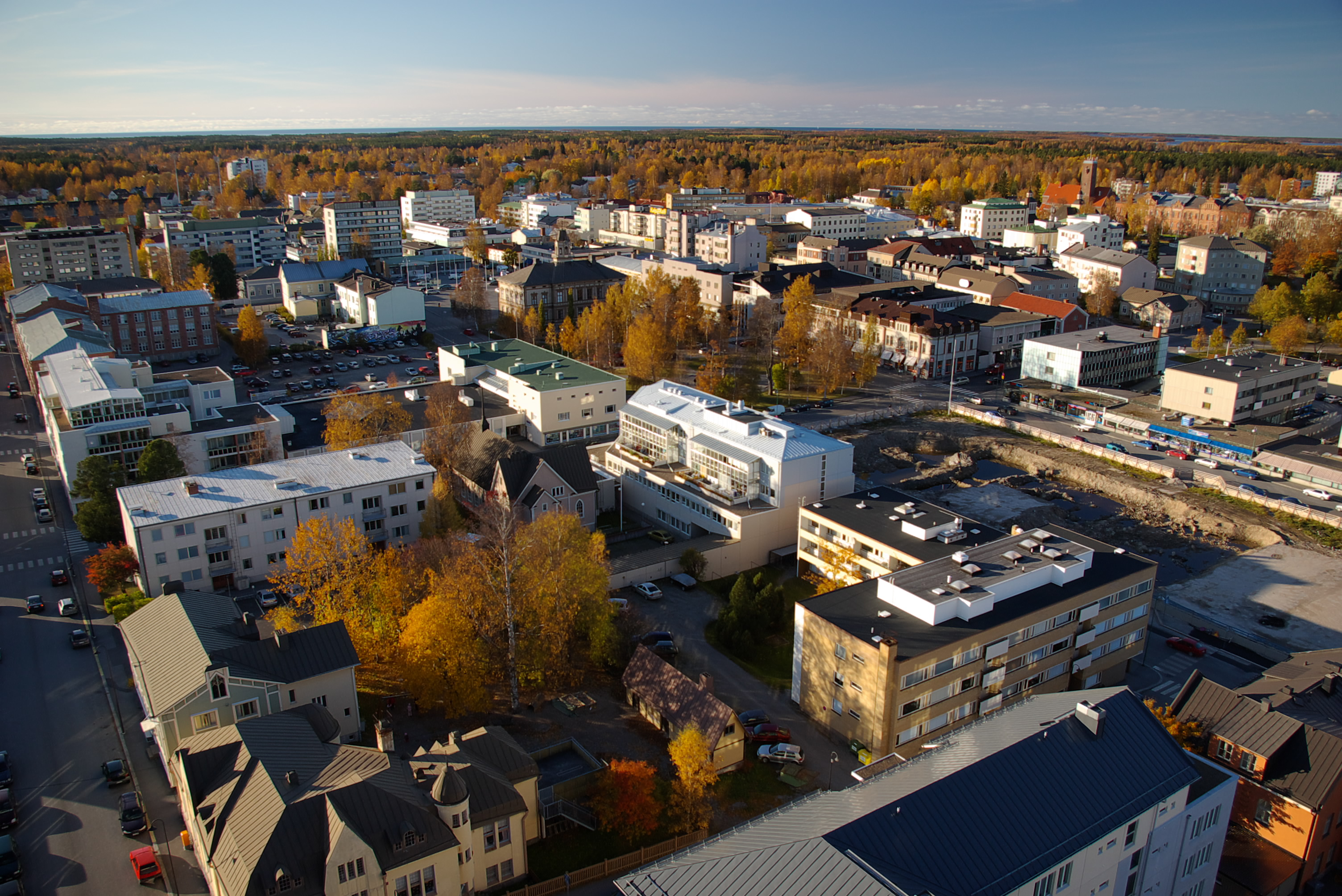 Jakobstad viewed from the water tower